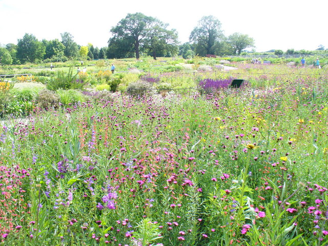 Prairie Meadow Large expanse of meadow by the Glasshouse at Wisley - the flowers are common to North American prairies.